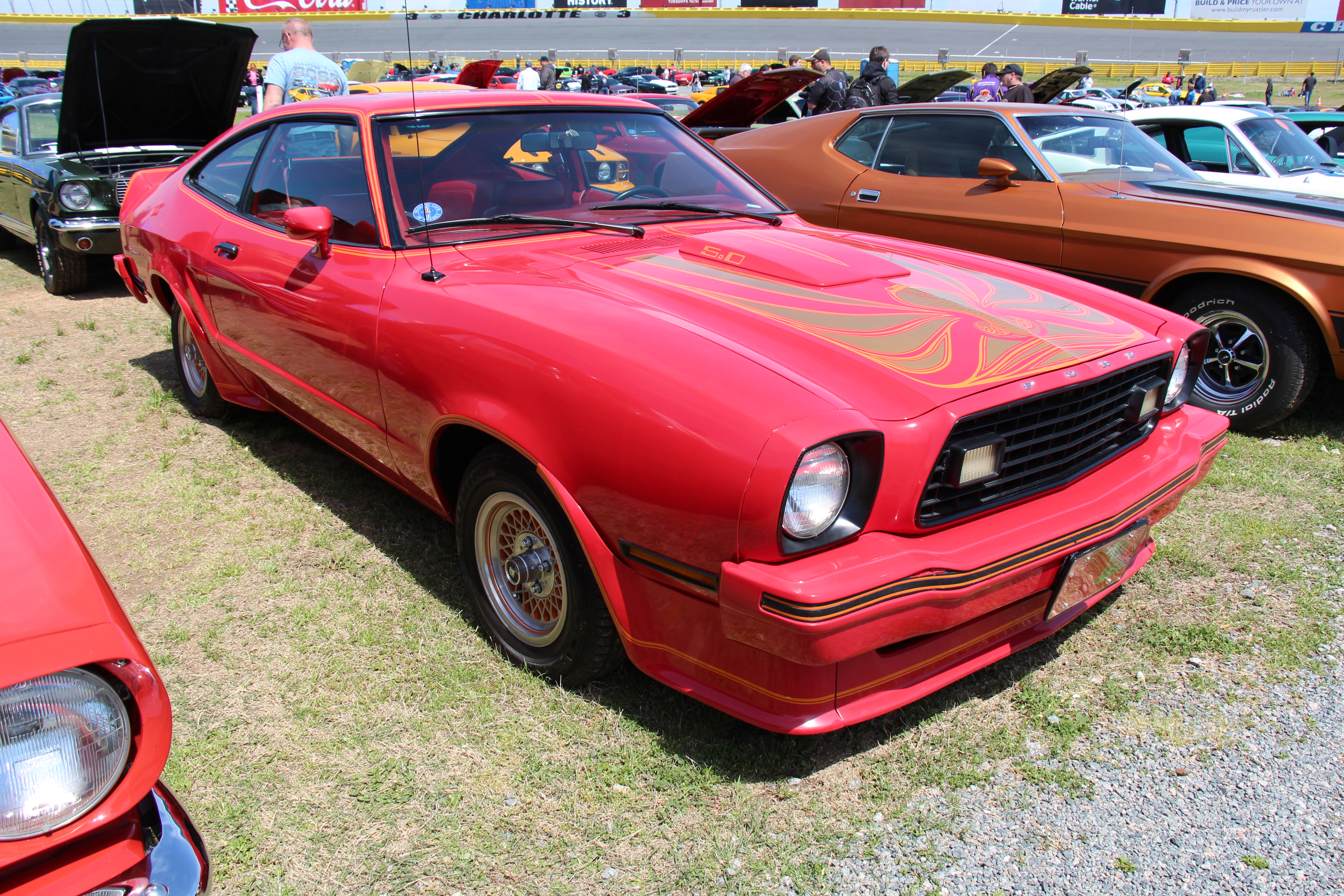 Bright Red. The 1974-78 2nd generation Mustang followed world trends influenced by the oil crisis etc and was a smaller car again. Not even available with a V8 in 1974, but the V8 reintroduced in 75, and the real muscle car again in 1976 with the Cobra II. It got a black grille, simulated hood scoop, front and rear spoilers, quarter window louvers, accent stripes and a cobra emblem on the front fenders. In 1978, the King Cobra became available. Only 4313 were produced. It featured a deep air-dam, stripes, and a cobra snake decal on the hood Engine; 302 Windsor V8 Photographed at the 50th Anniversary of the Mustang celebrations at the Charlotte Motor Speedway, April 2014